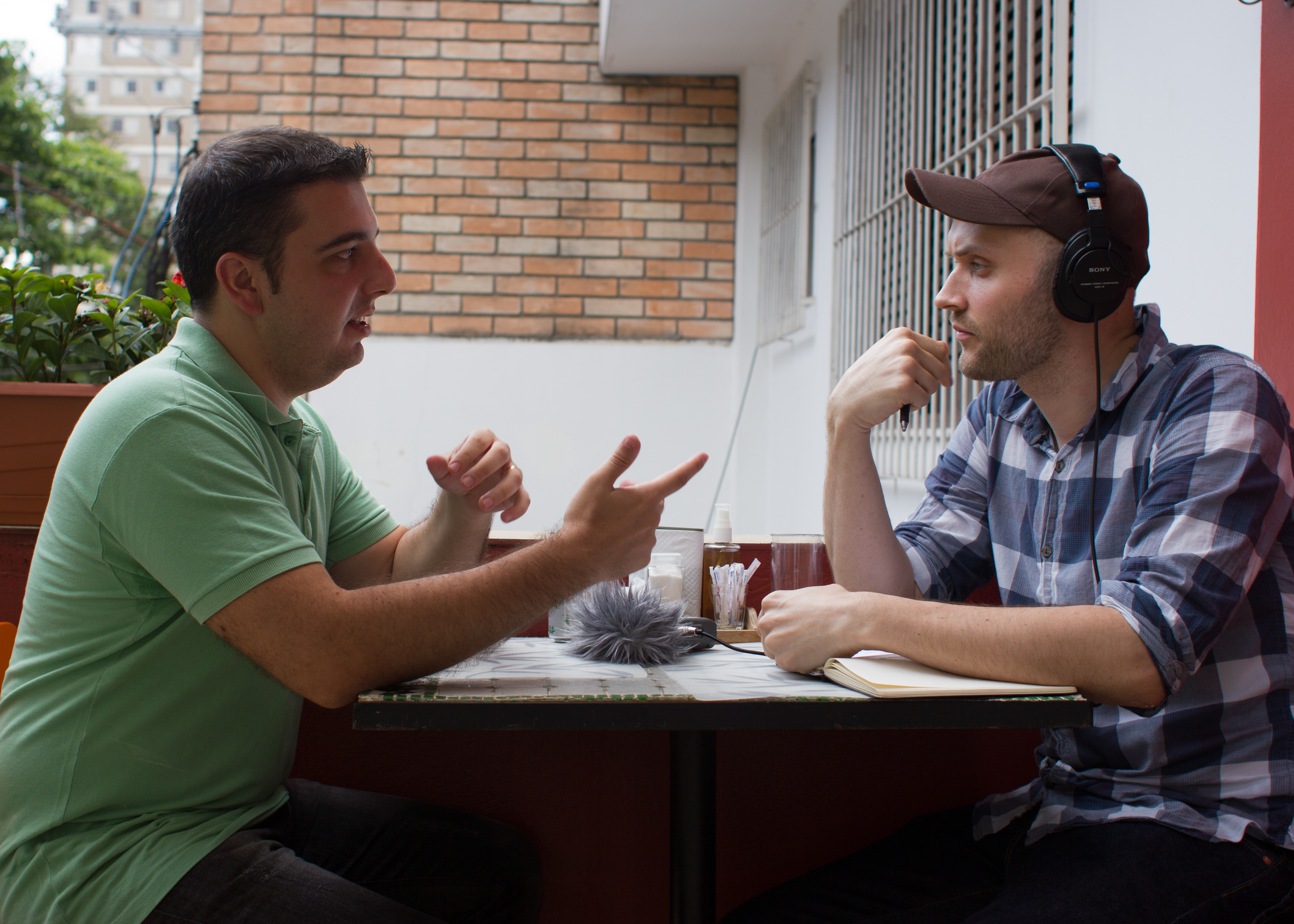 Victor Grigas Interviewing pt user aerolitz São Paulo March 2012